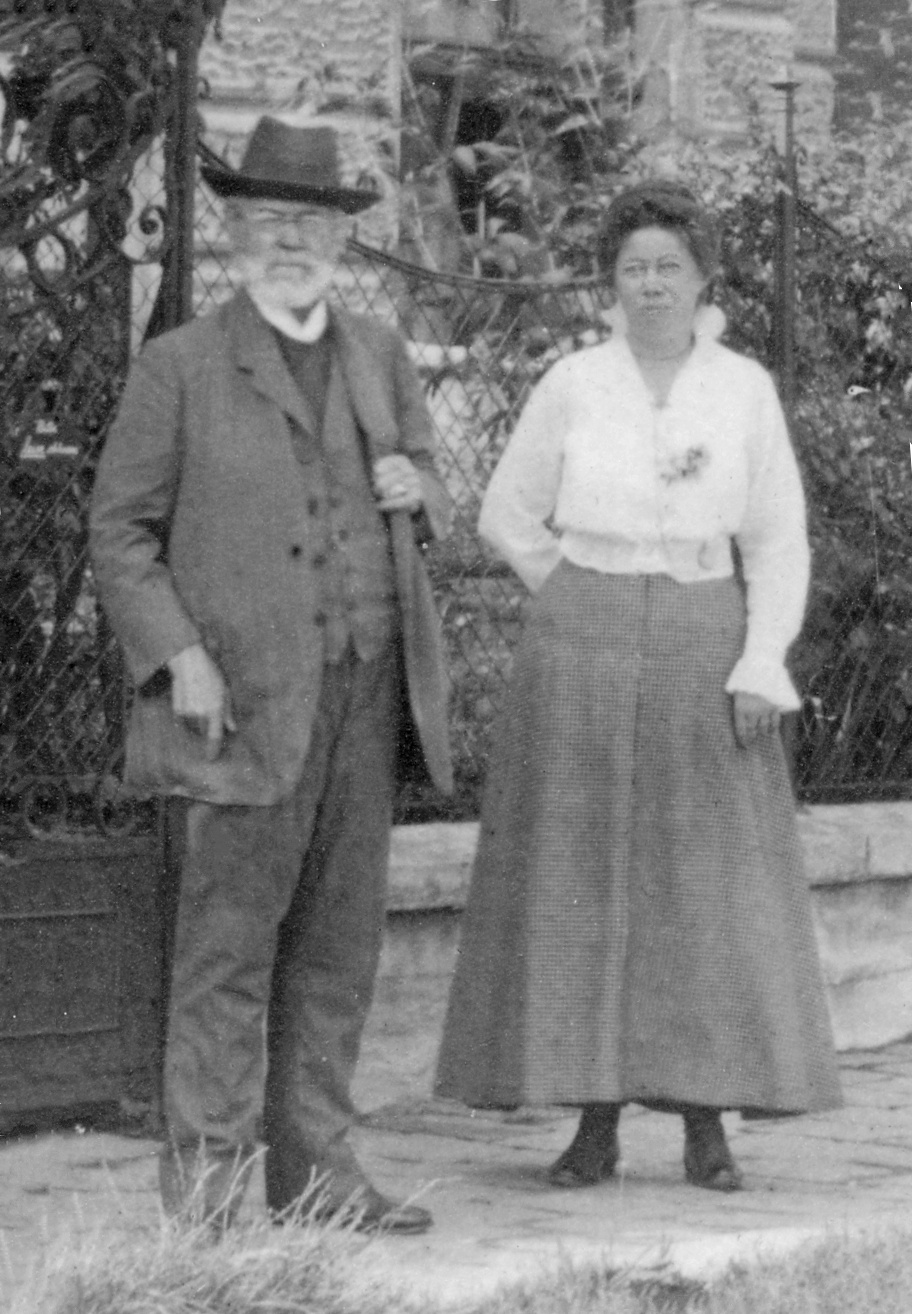 Famous Austrian Music critic Theodor Otto Helm and his daughter Mathilde in Salzburg,Austria about 1910. This photo was scanned from a family photo in my possession.